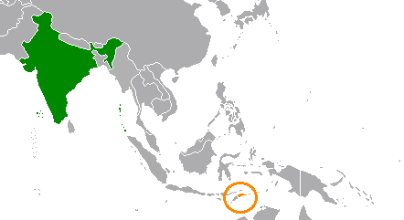 Map showing locations of both India and East Timor